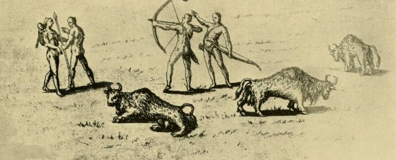 Buffalo and Plains Indians